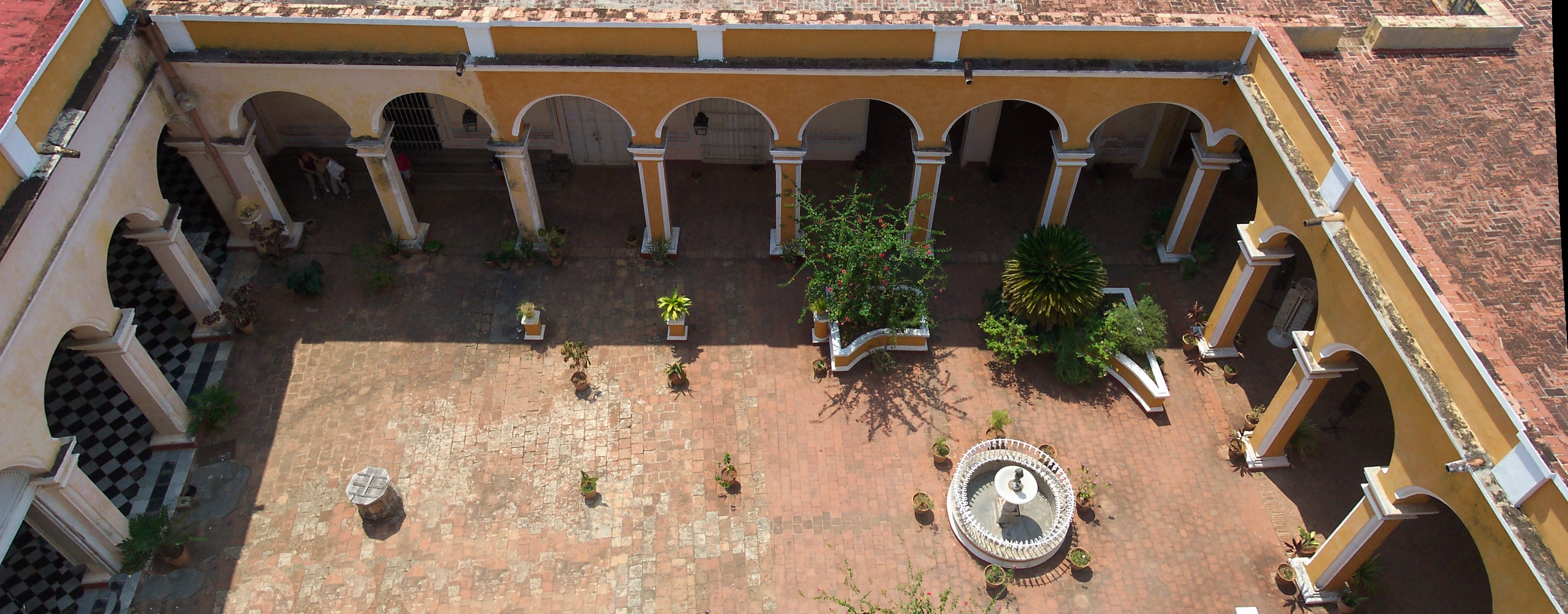 Palacio Cantero courtyard — of the city museum in Trinidad, Cuba.